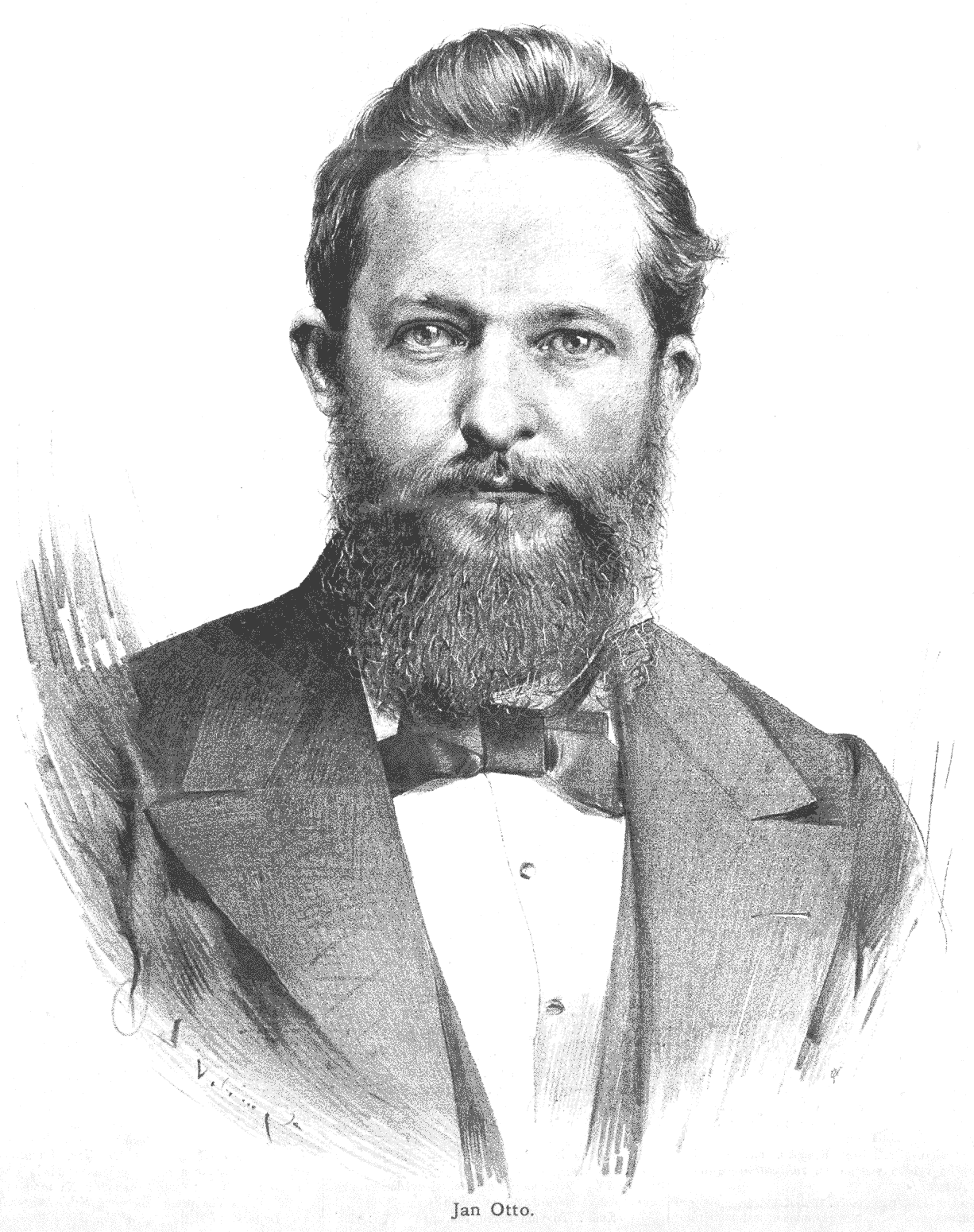 Portrait of Jan Otto (1841-1916), Czech publisher